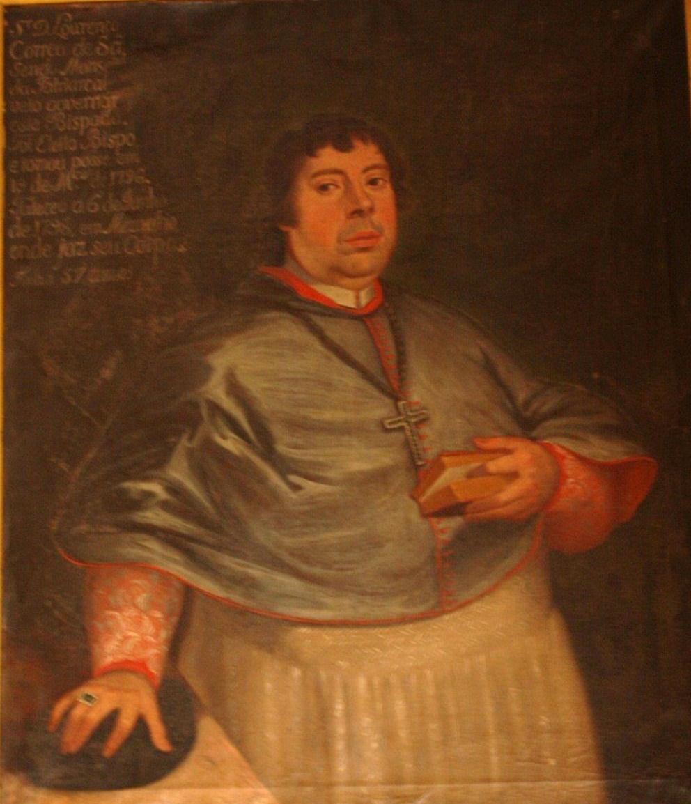 Dom Lourenço Manuel Correia de Sá e Benevides (1741-1798), Bishop of Porto.